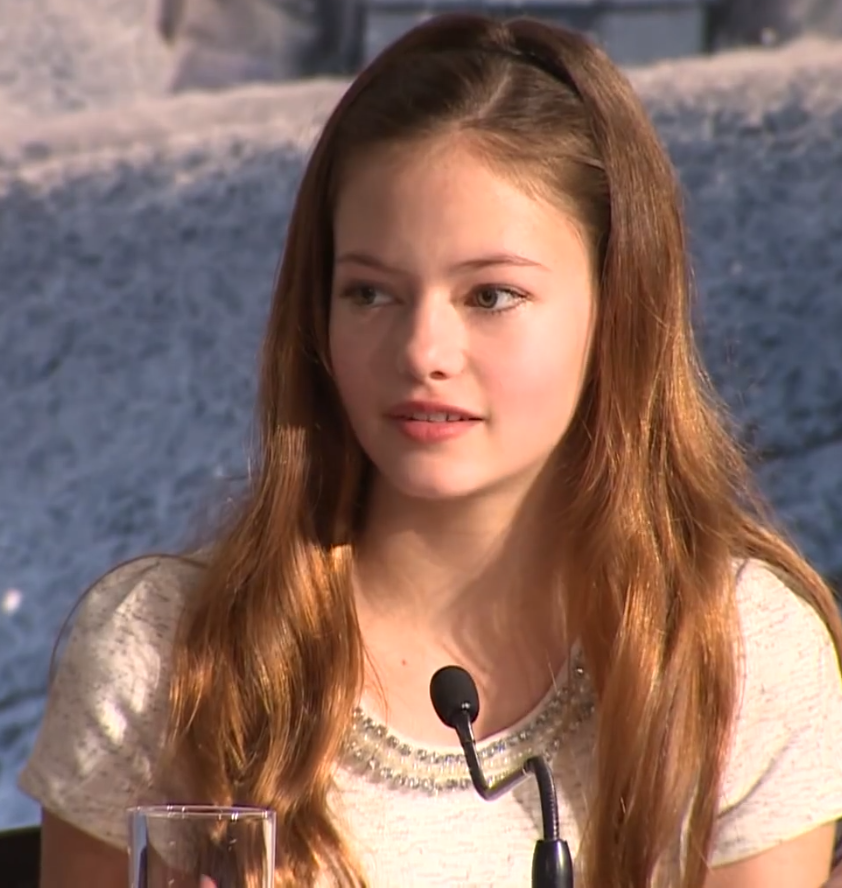 Mackenzie Foy at Interstellar Press Conference